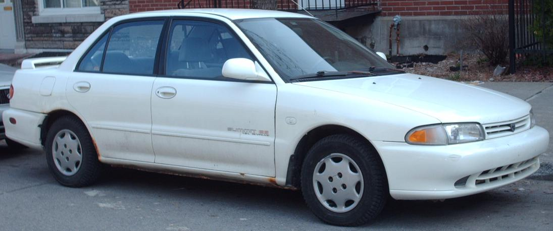 1993-1996 Eagle Summit photographed in Montreal, Quebec, Canada.